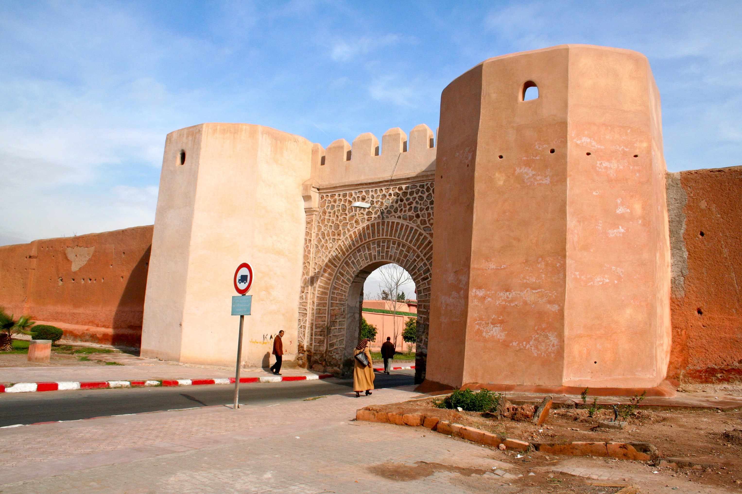 Photo taken in Marrakech, Morocco